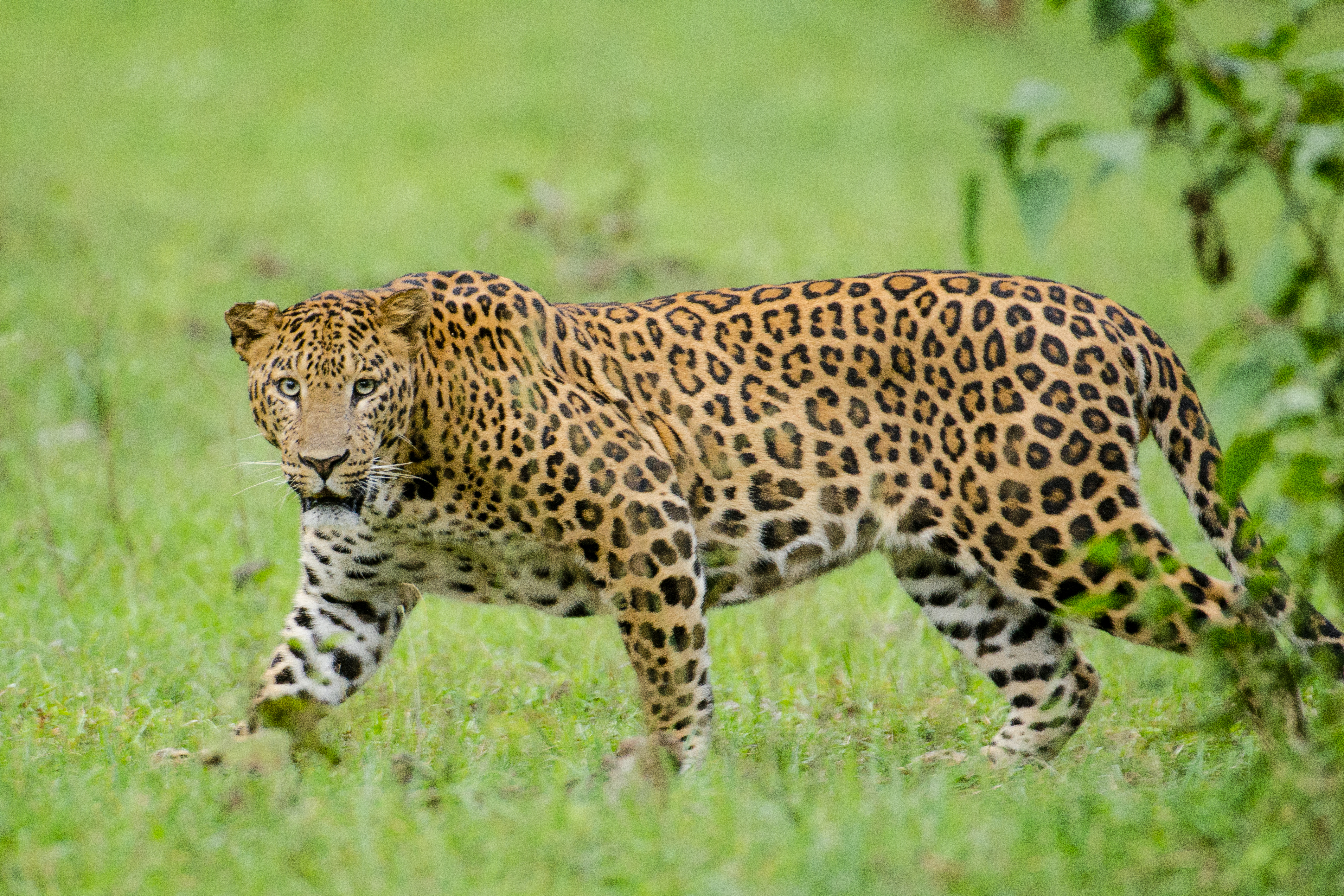 Nagarhole National Park, Kabini, Karnataka, India It is a national park located in Kodagu district and Mysore district in Karnataka state in South India. This park was declared the thirty seventh Project Tiger tiger reserve in 1999. It is part of the Nilgiri Biosphere Reserve. The Western Ghats Nilgiri Sub-Cluster of 6,000 km2 (2,300 sq mi), including all of Nagarhole National Park, is under consideration by the UNESCO World Heritage Committee for selection as a World Heritage Site. Nature scenes, Wildlife of India, 2013